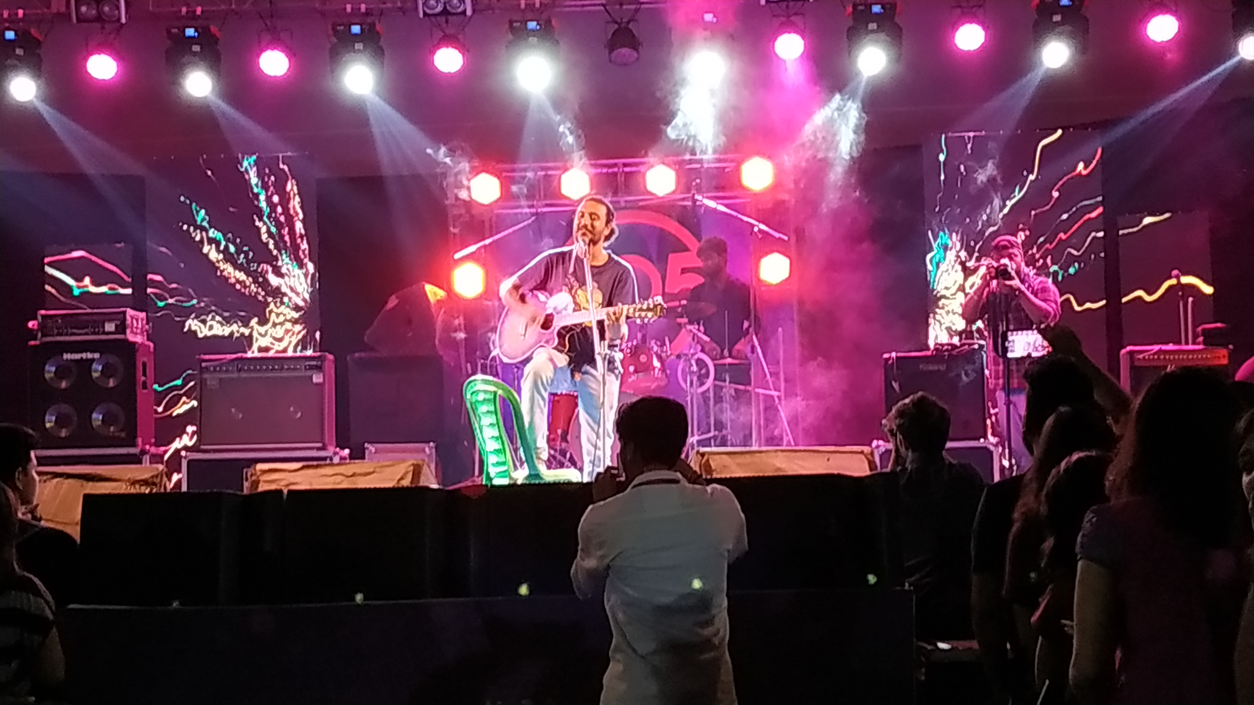 Guest performance in OIKOTAAN.